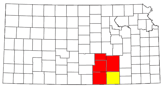 Locator map of the Wichita-Winfield Combined Statistical Area in the southern part of the U.S. state of Kansas. The two components of the CSA are colored separately: Wichita Metropolitan Statistical Area: red Winfield Micropolitan Statistical Area: yellow